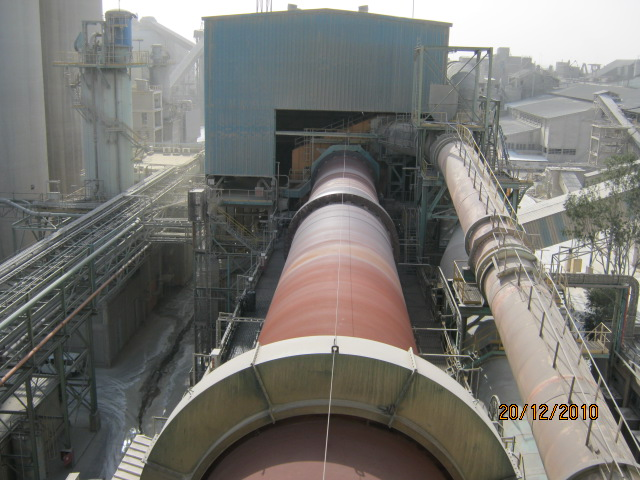 clinker Kiln - Nesher cement, Ramla, Israel